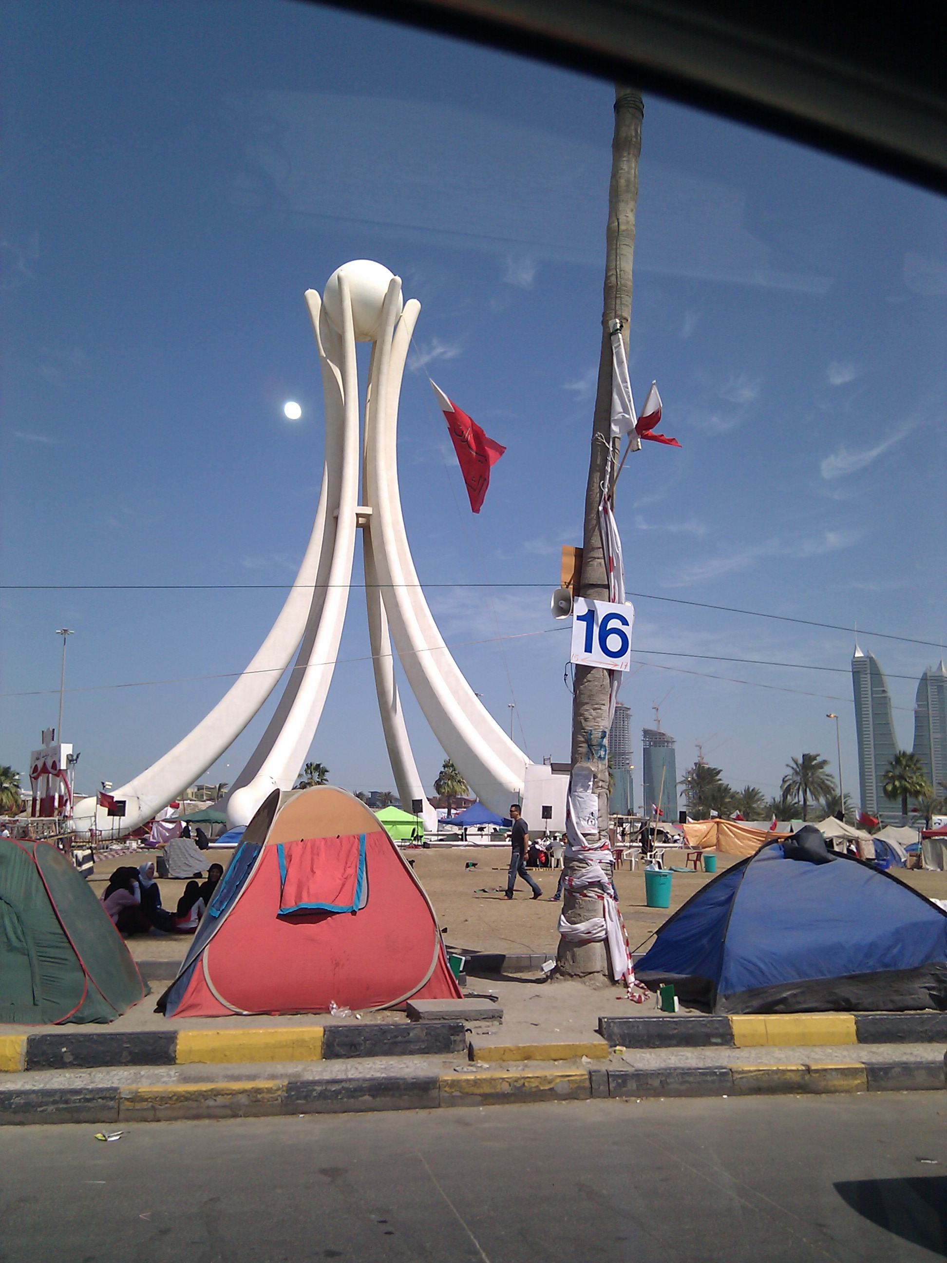 Protesters camped out infront of the Pearl Roundabout on March 4th 2011, days before it was destroyed on March 18th 2011. This is during the 2011 Bahraini protests.